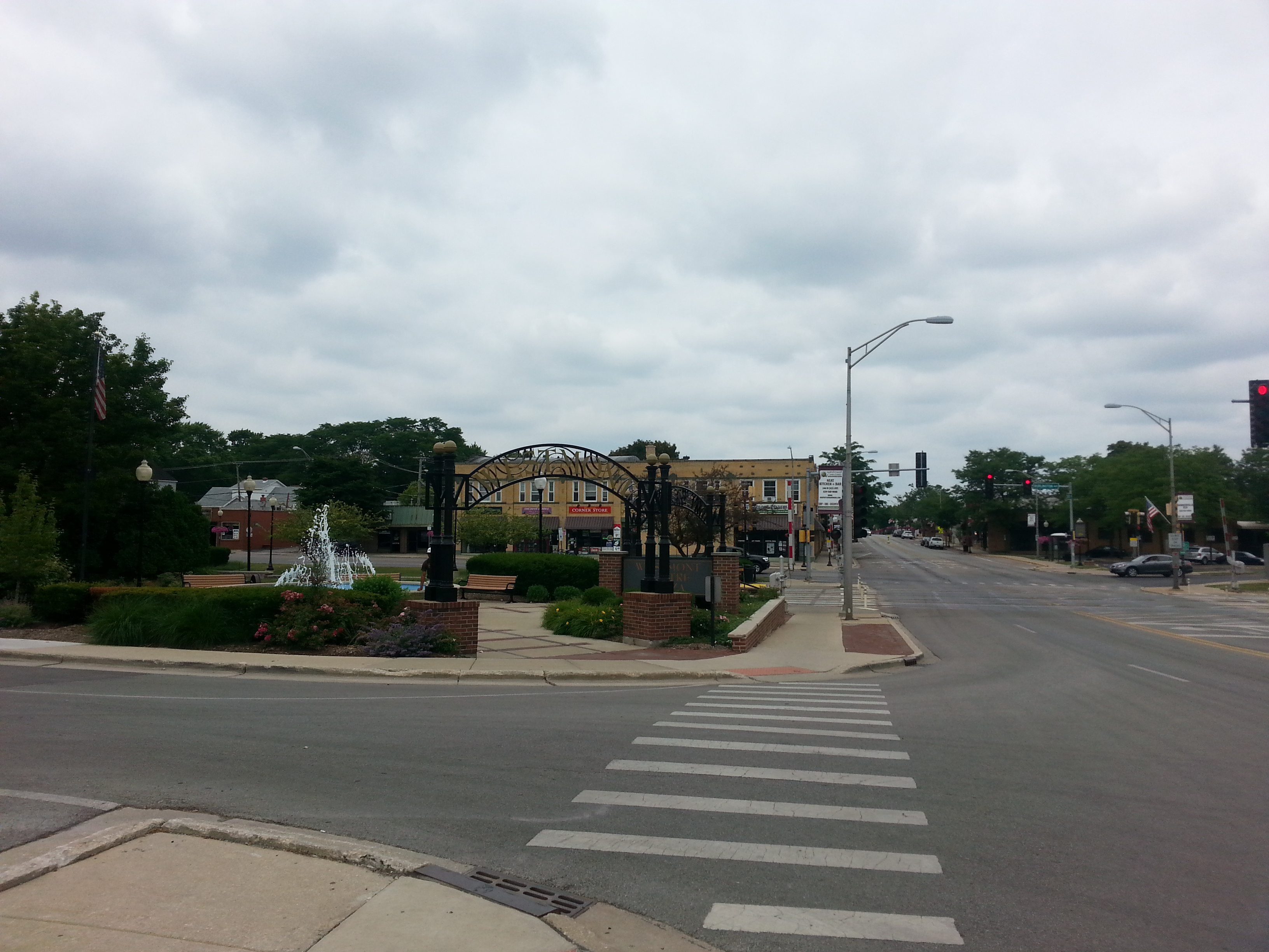 Central Westmont